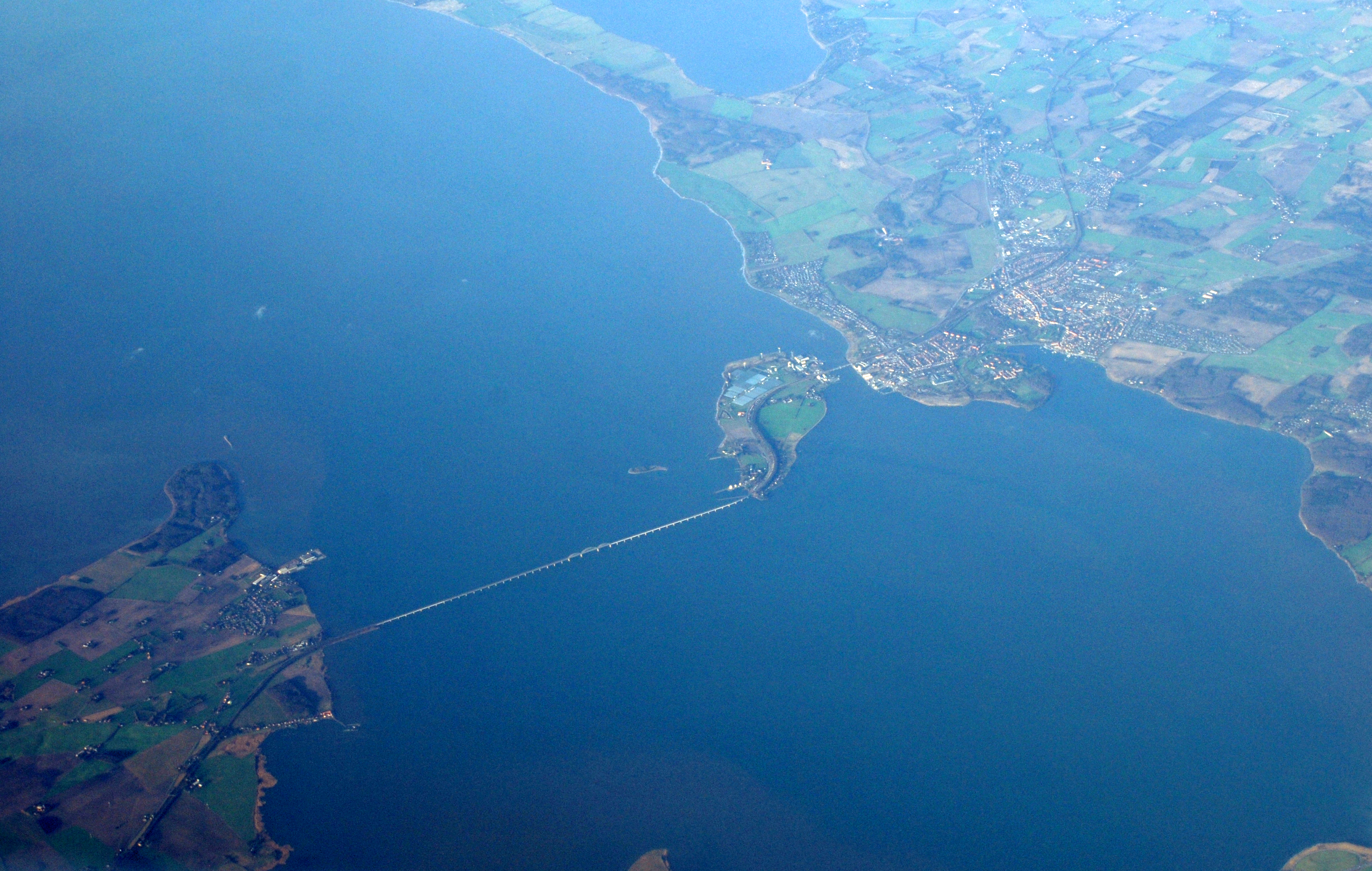 Storstrøm Bridge photographed from an airplane.